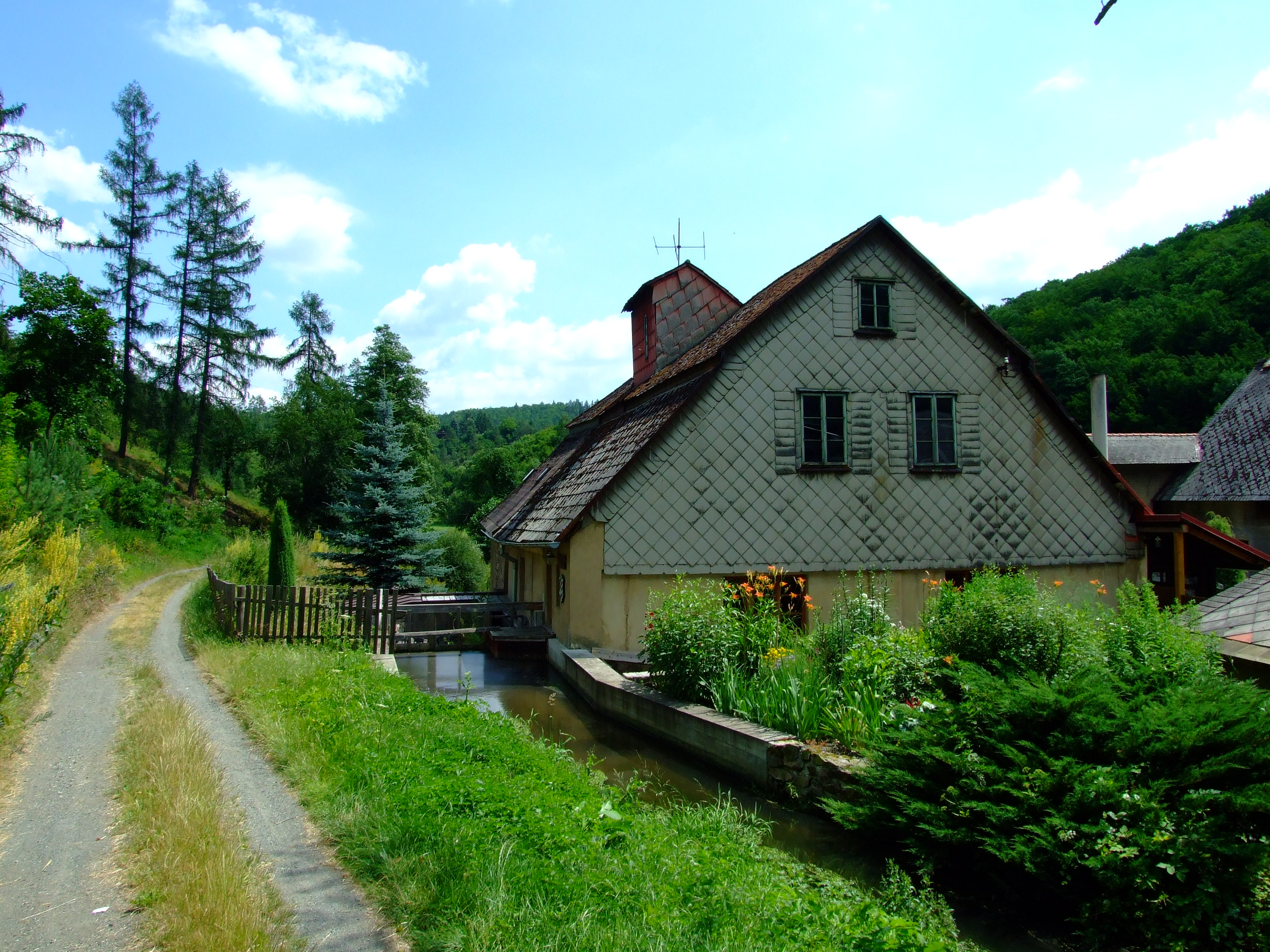 Markův mlýn mill in Central Bohemian region, CZhelp